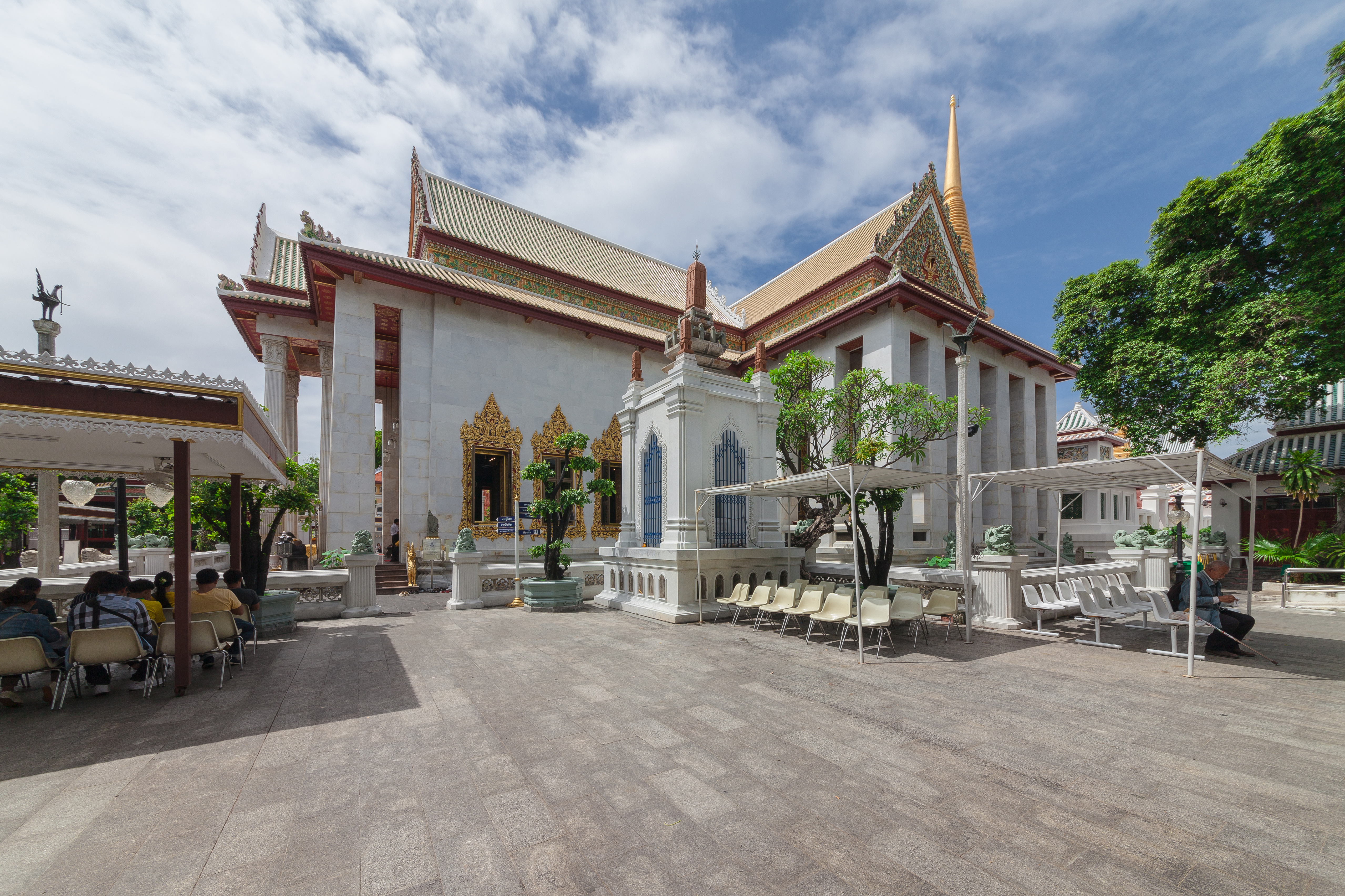 Ubosot of Wat Bowonniwet, Bangkok.